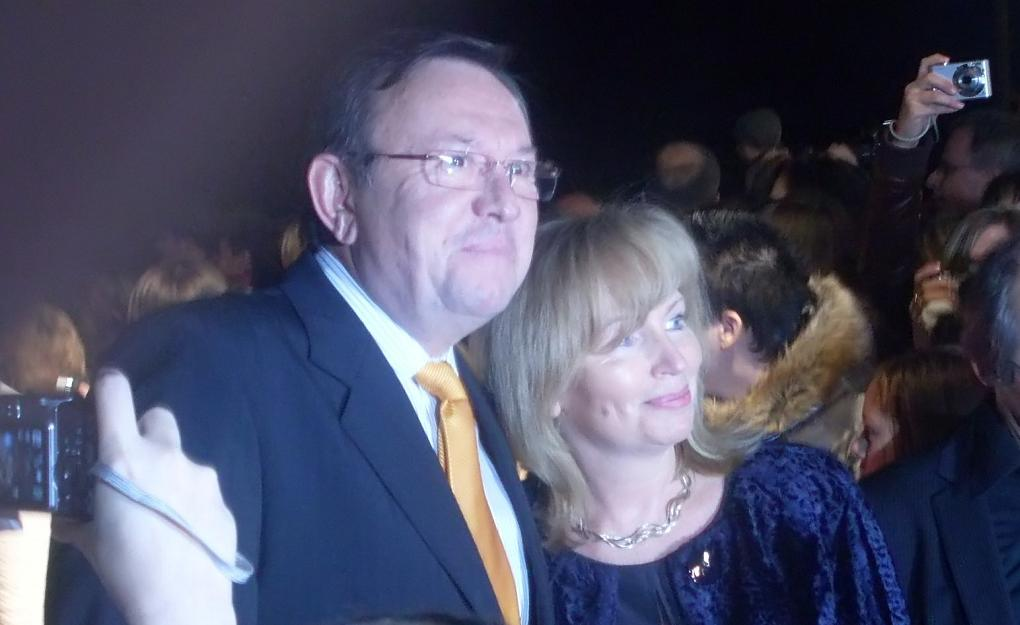 Polish actor Zbigniew Buczkowski with his wife at the Polish Film Festival in Gdynia (Poland).